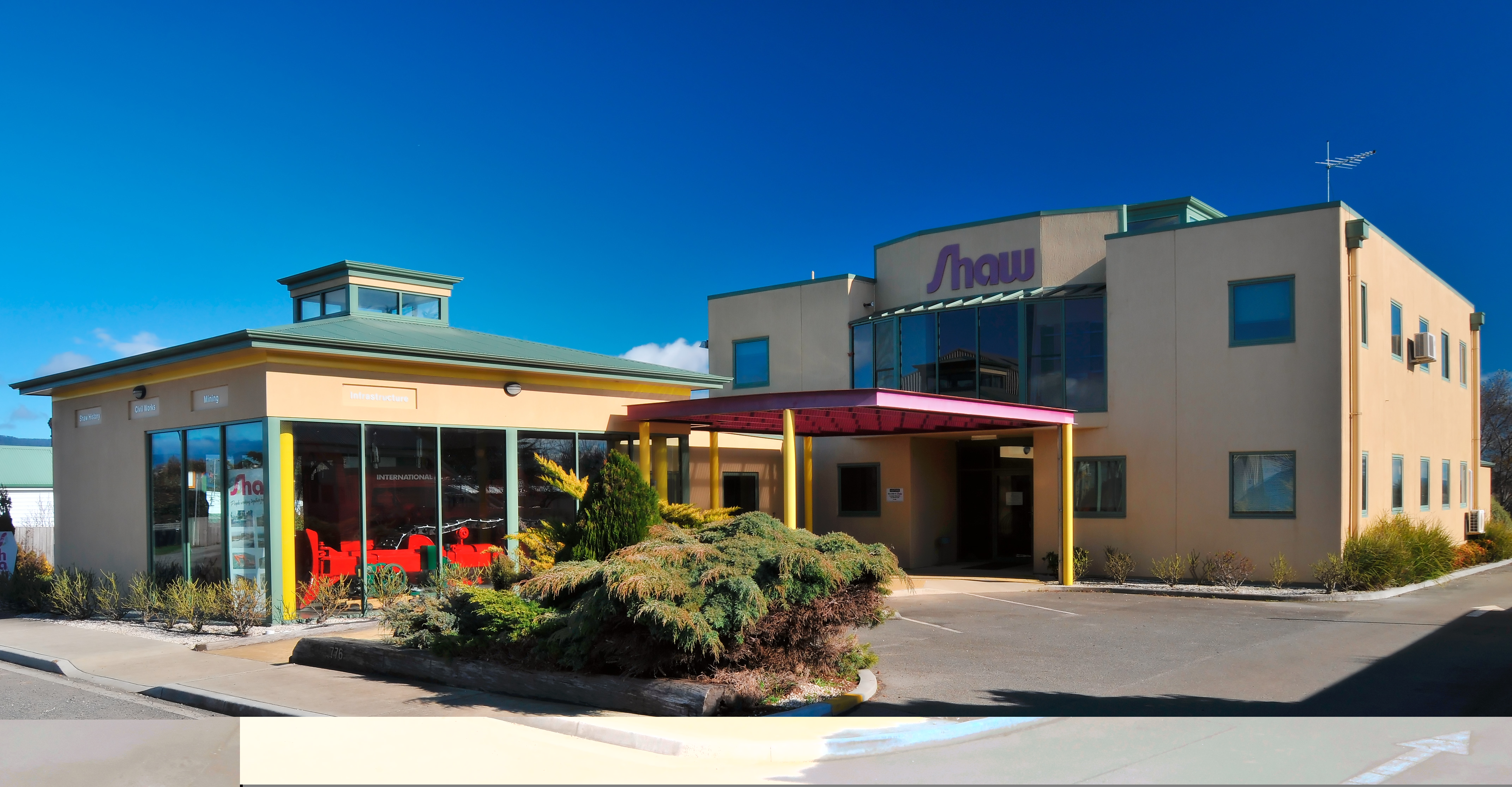 Shaw Contracting office in Whitemore, Tasmania, Australia